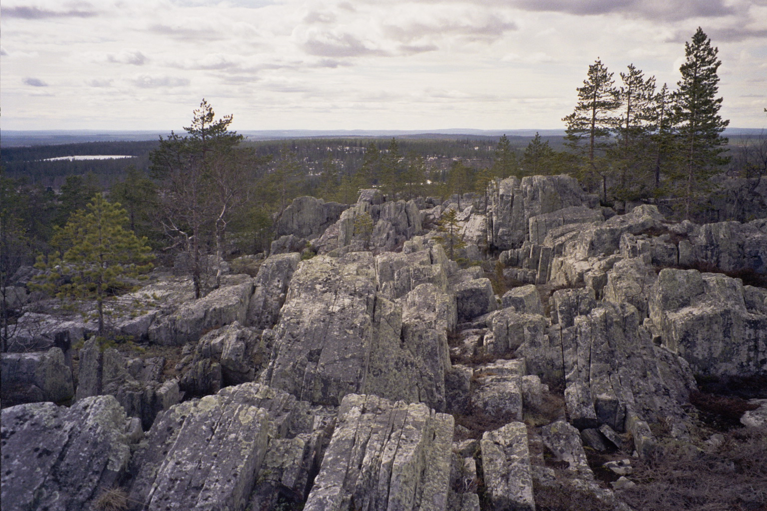 The top of Kaakamovaara, a hill in the northern Finland.